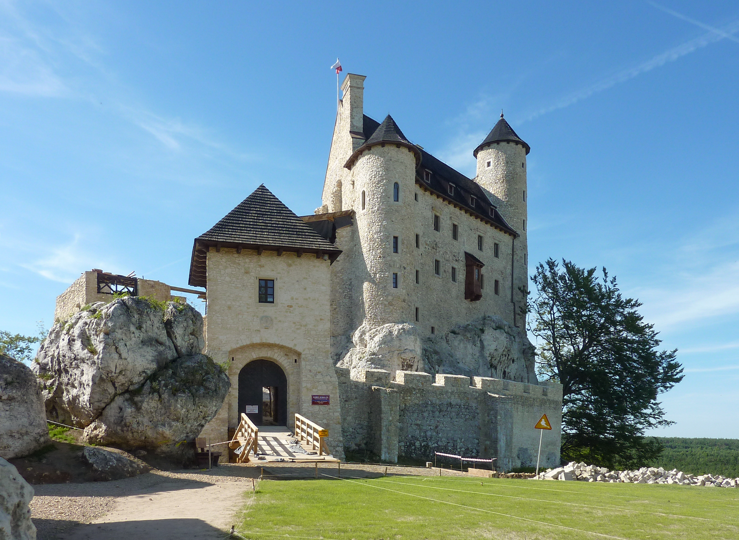 Current photo of the reconstructed Castle of Bobolice (Zamek Bobolice)